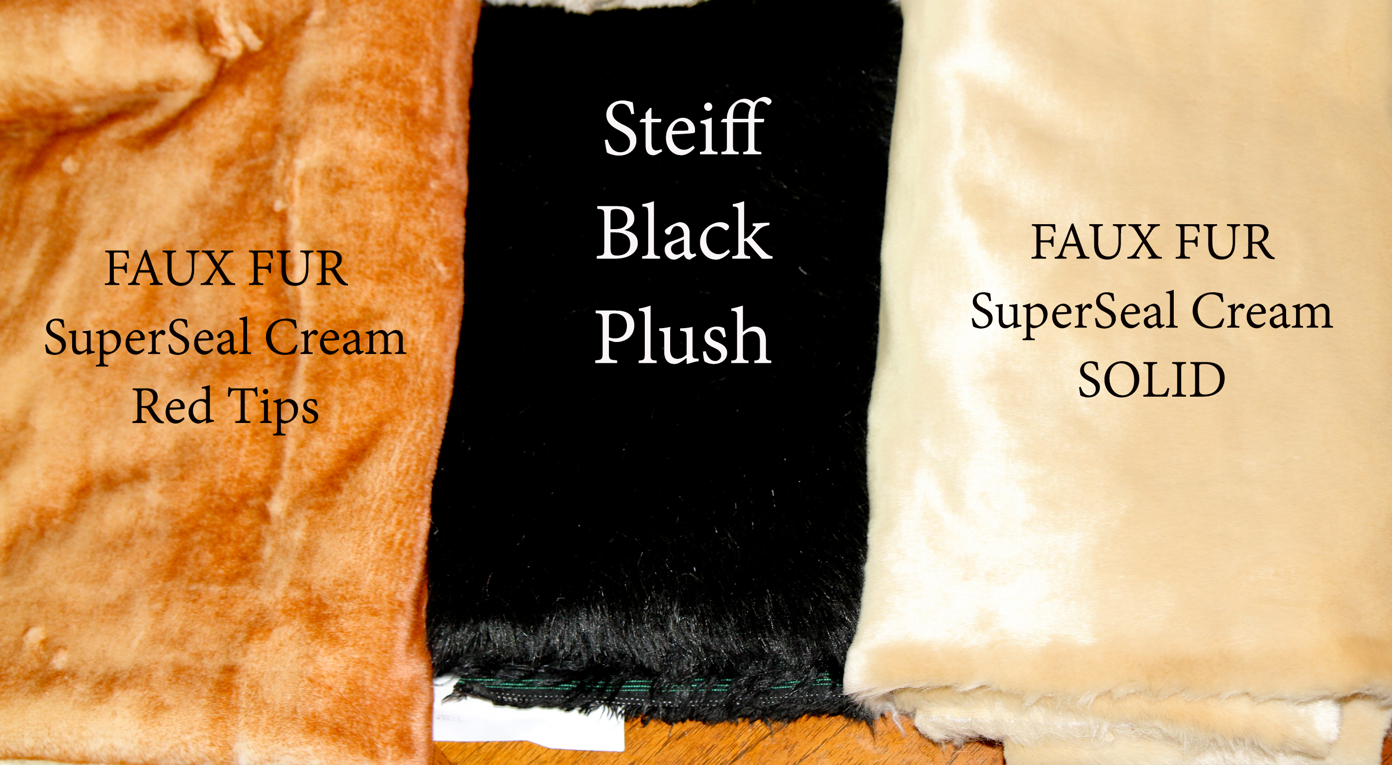 Red Fox SuperSeal (very soft) - all one length Steiff Schulte Black Plush Cream Superseal solid Faux fur - all one length